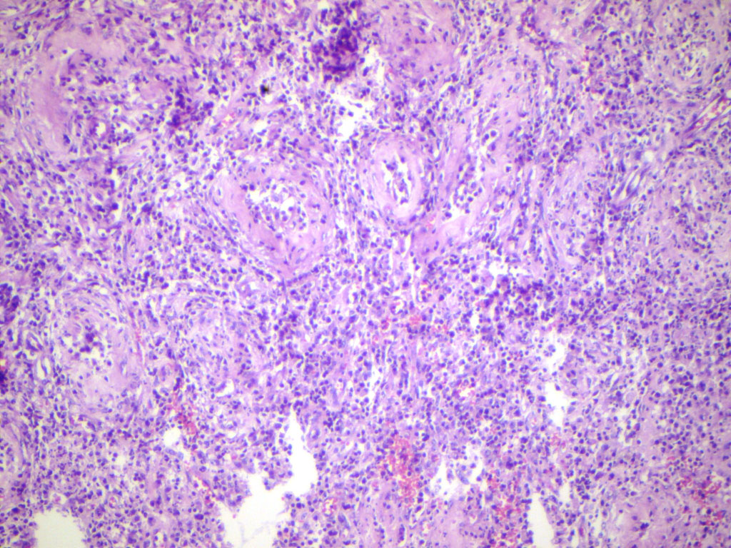 General pathology: Acute inflammation: showing hyalinised residual seminiferous tubules and dense infilitrate of neutrophils.